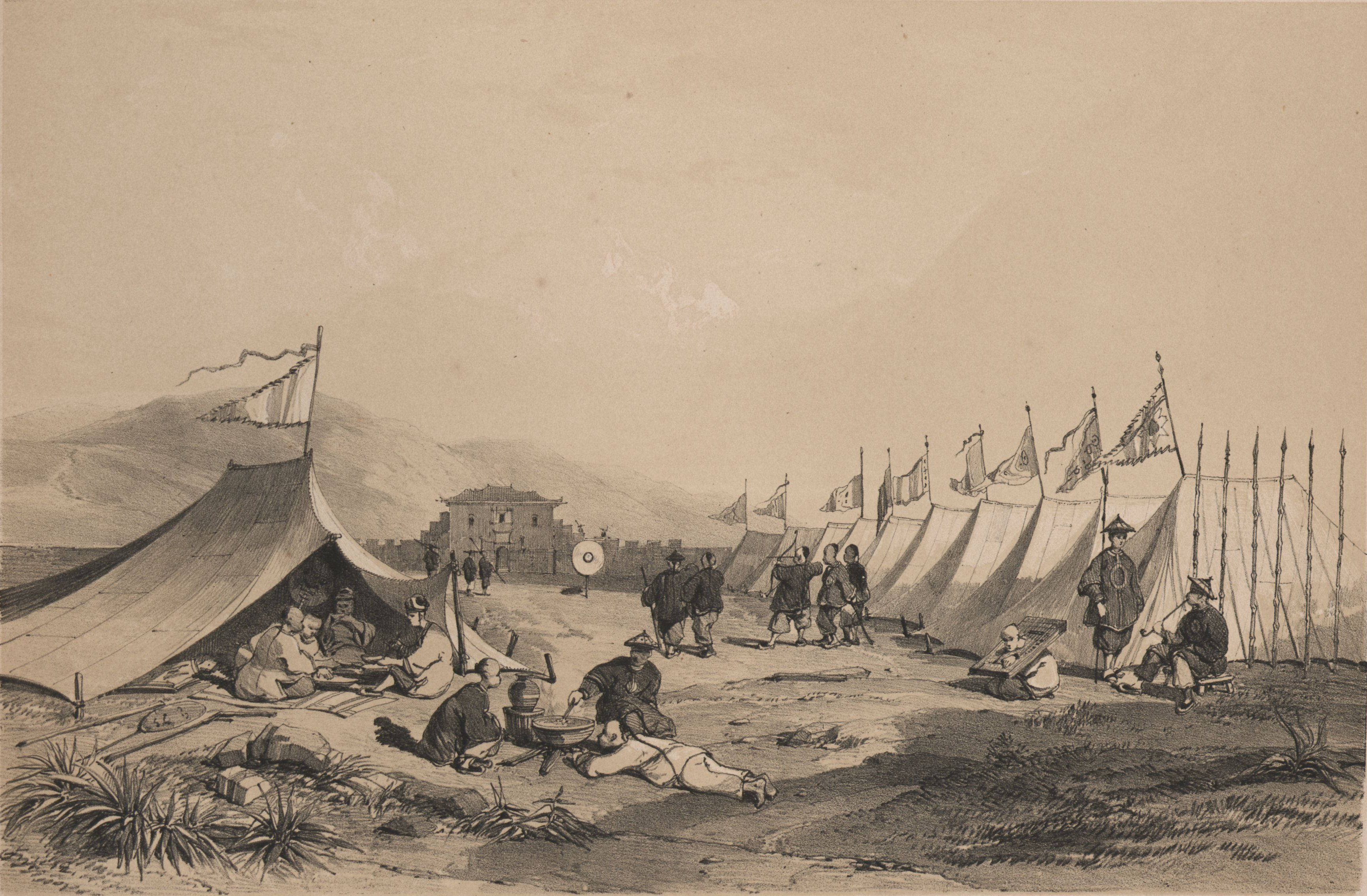 Chinese encampment and wall that separates China from Macau.